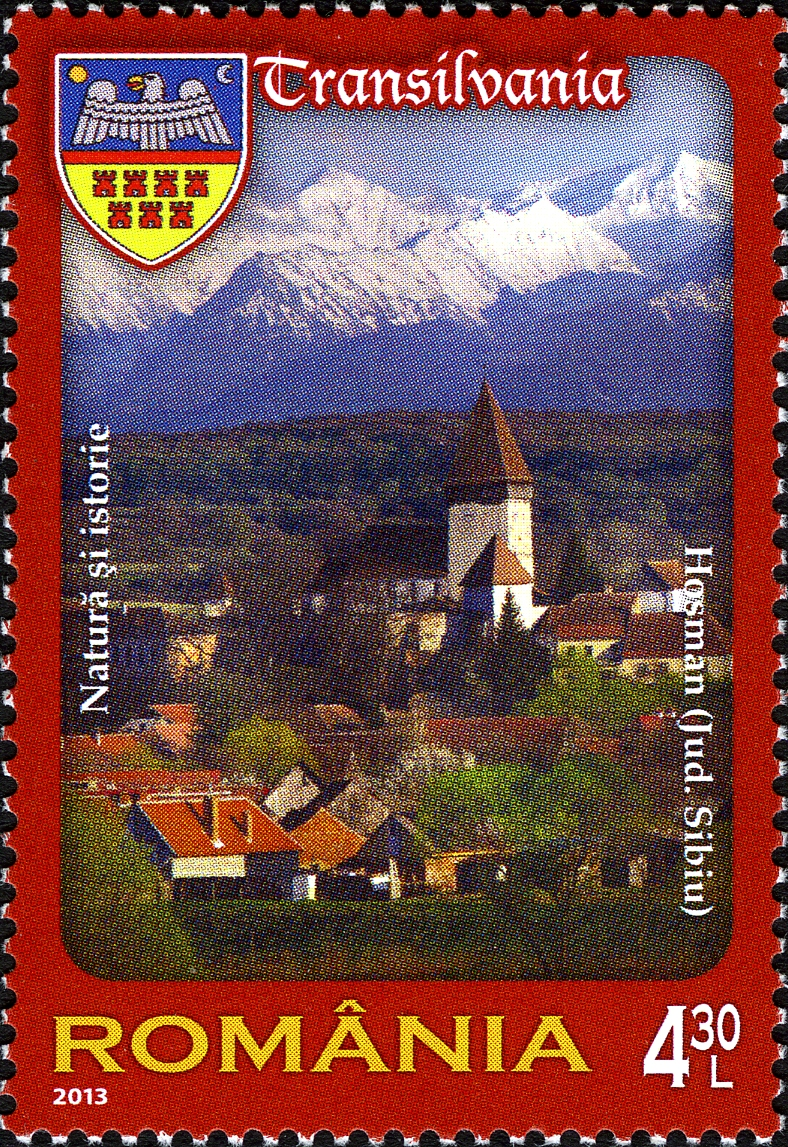 Stamps of Romania, 2013